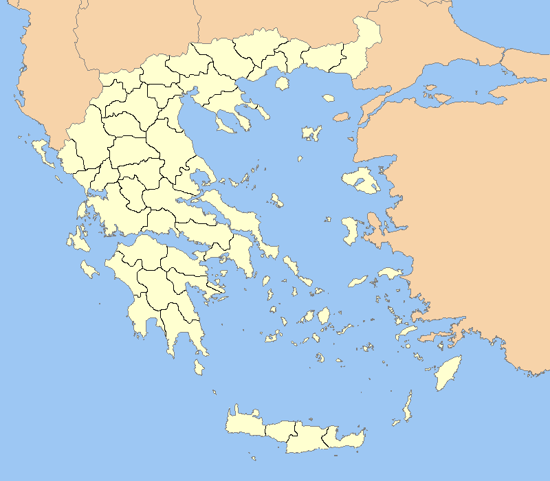 Outline map of the prefectures of Greece with a dark outline